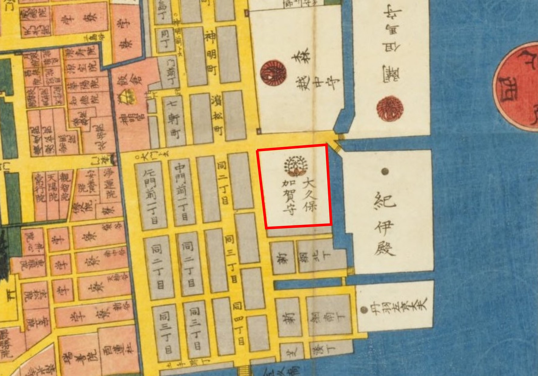 Residence of Okubo (Odawara) at Edo